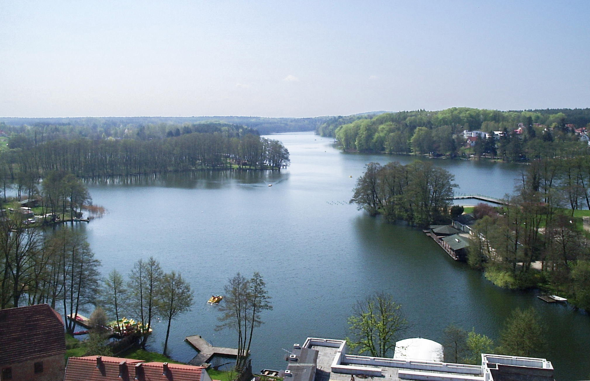 Łagów Lake